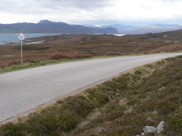 A838 passing place near Portnancon Looking across Loch Eriboll from just north of Laid.